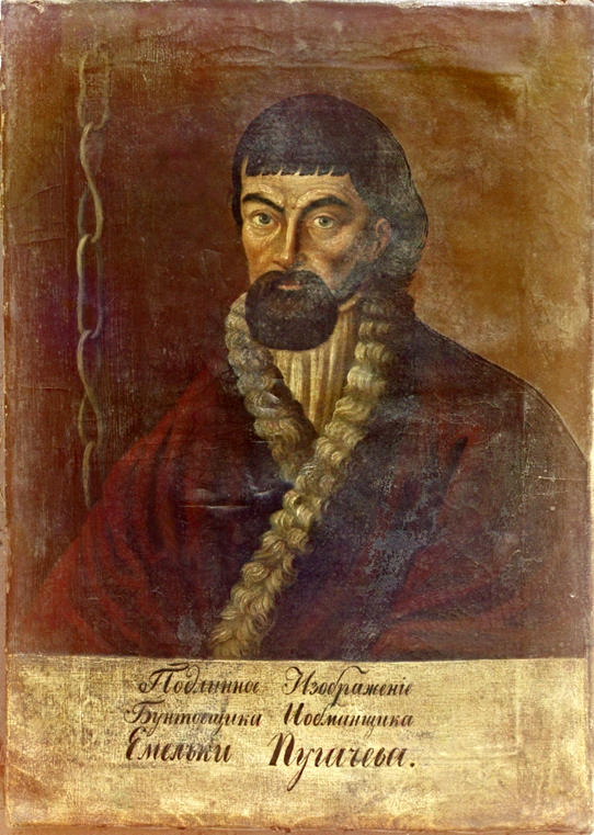 A portrait of Pugachov, painted from life with oil paints. Museum inventory number 4588. In the Rostov museum. Rostov Velikii. 1911